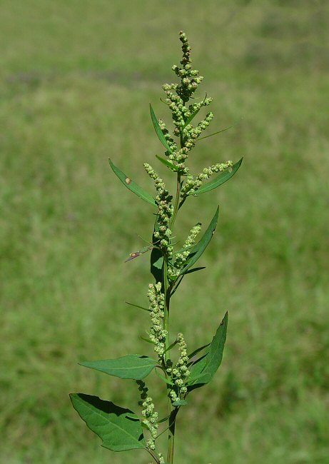 کمک یار